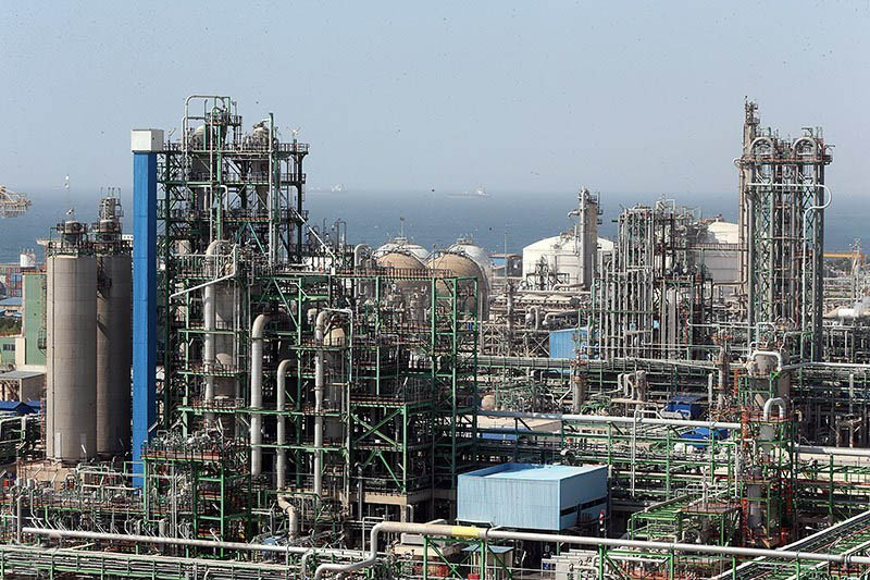 Petrochemical Complexes in PSEEZ, Asaluyeh.